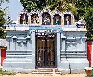 Erakaram kandanathasamy temple ஏரகரம் கந்தநாதசுவாமி கோயில்